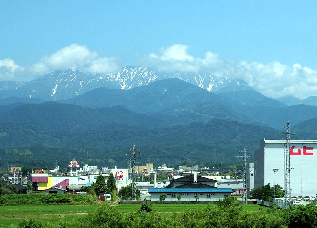 Town of Kamiichi with view of the Japanese alps, Toyama Prefecture, Japan.